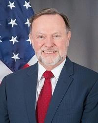 Tibor P. Nagy, Jr., Assistant Secretary, Bureau of African Affairs